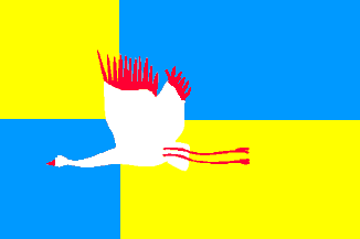 Municipal flag predating the 1997 rearrangement of municipalities